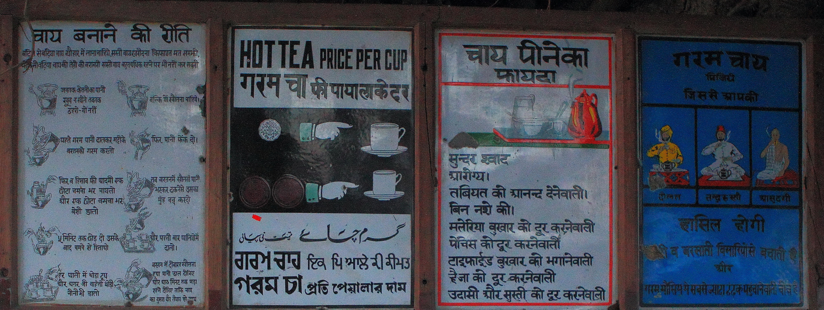 Golra Sharif Railway Museum and Station This is a photo of a monument in Pakistan identified as the ICT-2